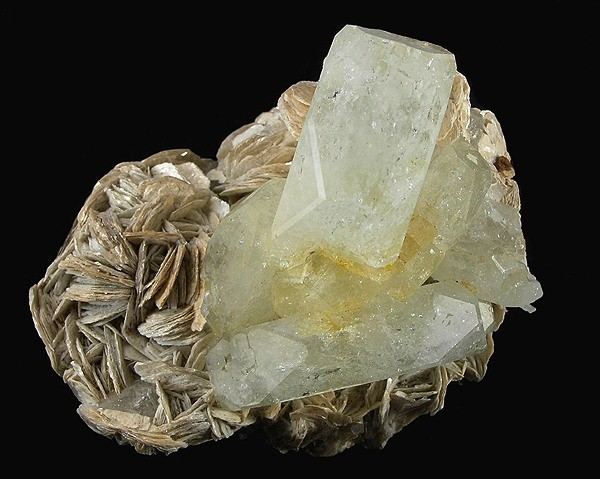 Beryl (Var.: Goshenite) Locality: Beryl-Scheelite deposit, Huya village, Mt Xuebaoding, Pingwu County, Mianyang Prefecture, Sichuan Province, China (Locality at ) Size: 7.9 x 5.6 x 5.5 cm. Goshenite, the colorless variety of beryl, is actually quite a bit more rare than the blue variety (aquamarine). This is a cluster of very large tabular, hexagonal crystals, one a chunky 1.7 cm thick, and another 4.5 cm across the face. They have GLASSY luster, and are a lot gemmier in person than the pics make them appear. These fine crystals sit attractively on a bed of bladed muscovite - a truly striking and impressive specimen for this lesser-seen beryl varietal.